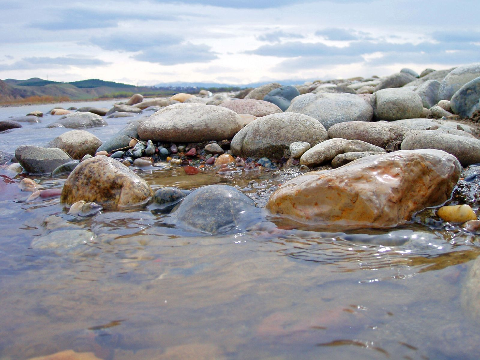 Cobbles in the Kuban River, RussiaКубань